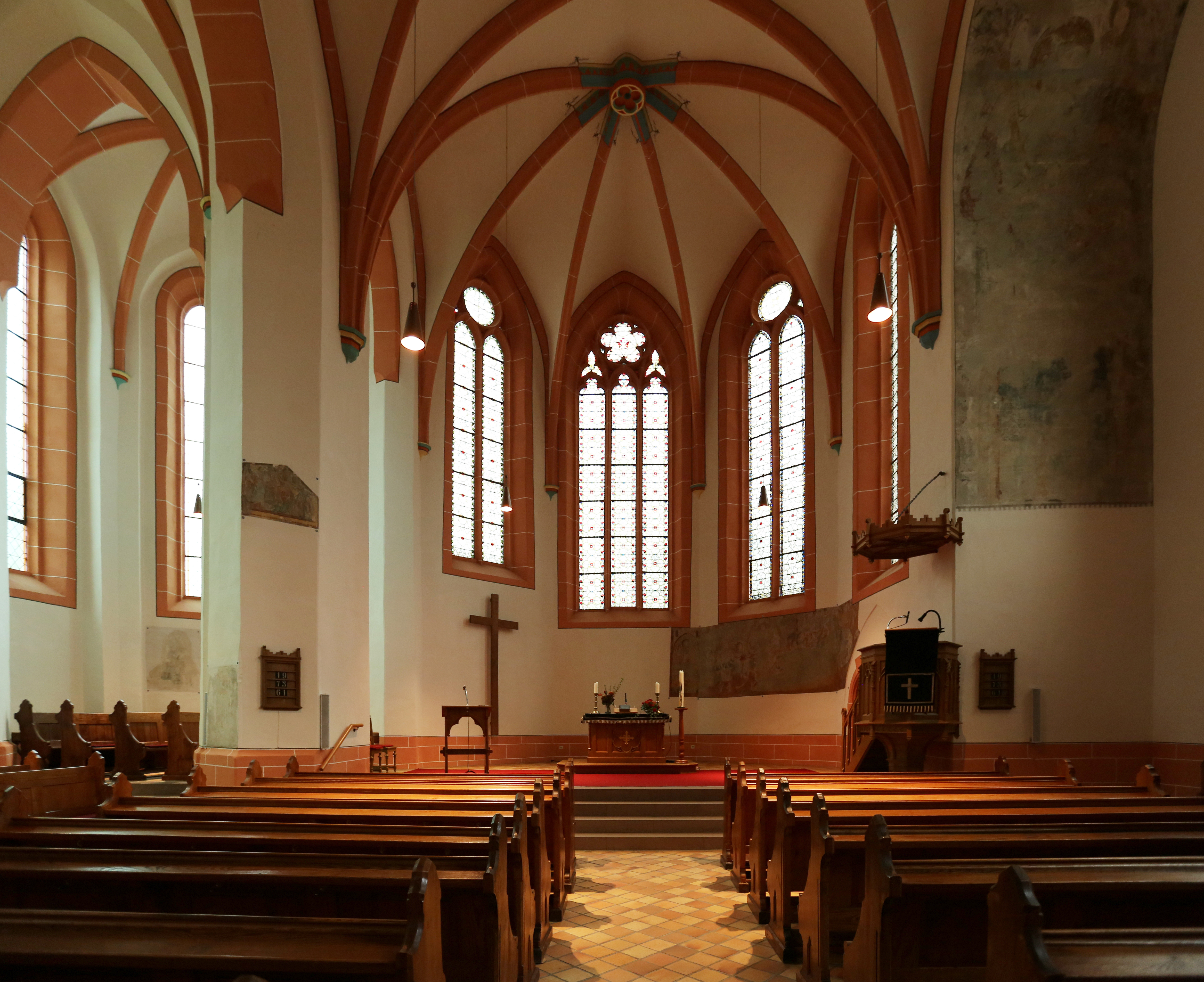 Saint Anna is a protestant church of Bacharach-Steeg in Rhineland-Palatinate Germany. She is a former Roman Catholic church, built in the 14th-century.